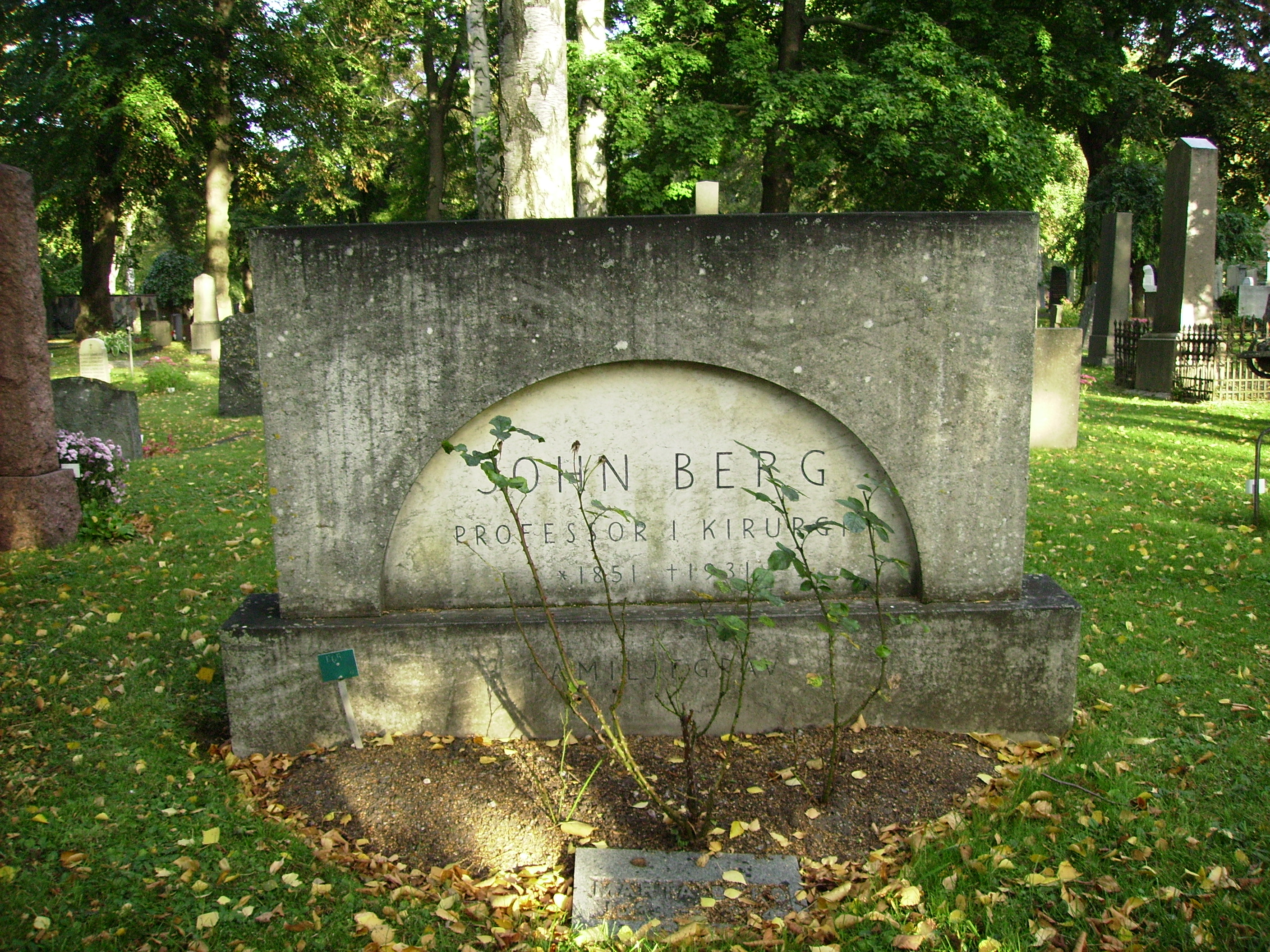 Picture of John Berg's grave at Solna kyrkogård